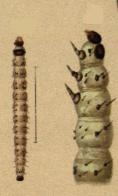 Epischnia cretaciella, left male, right female